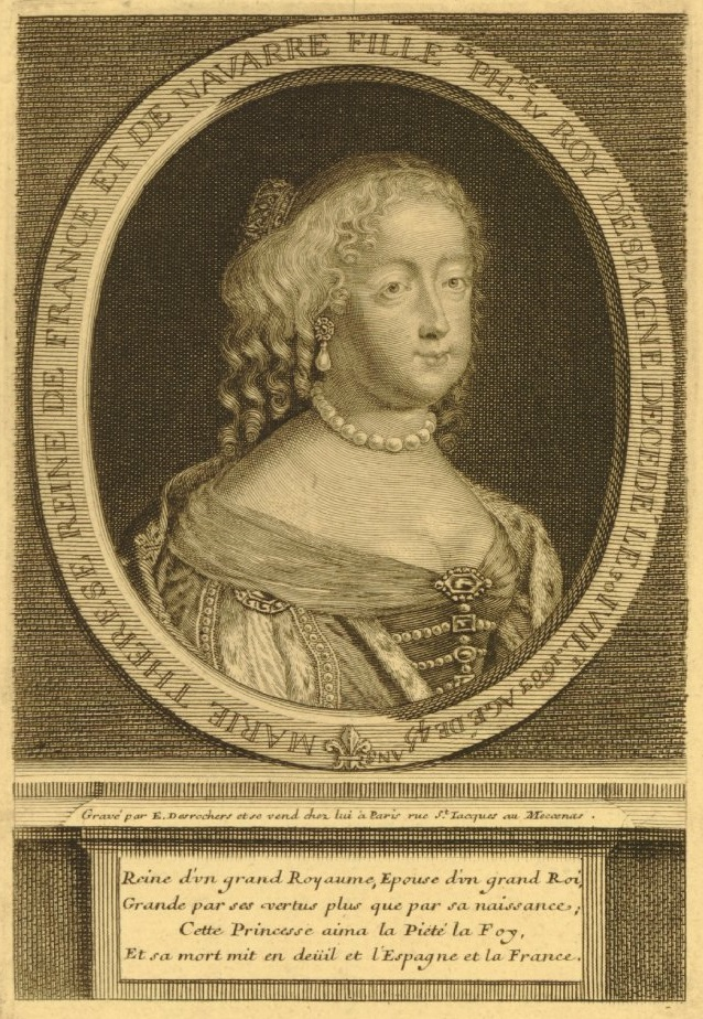 Posthumous portrait of Marie Thérèse of Austria, Queen of France and Navarre